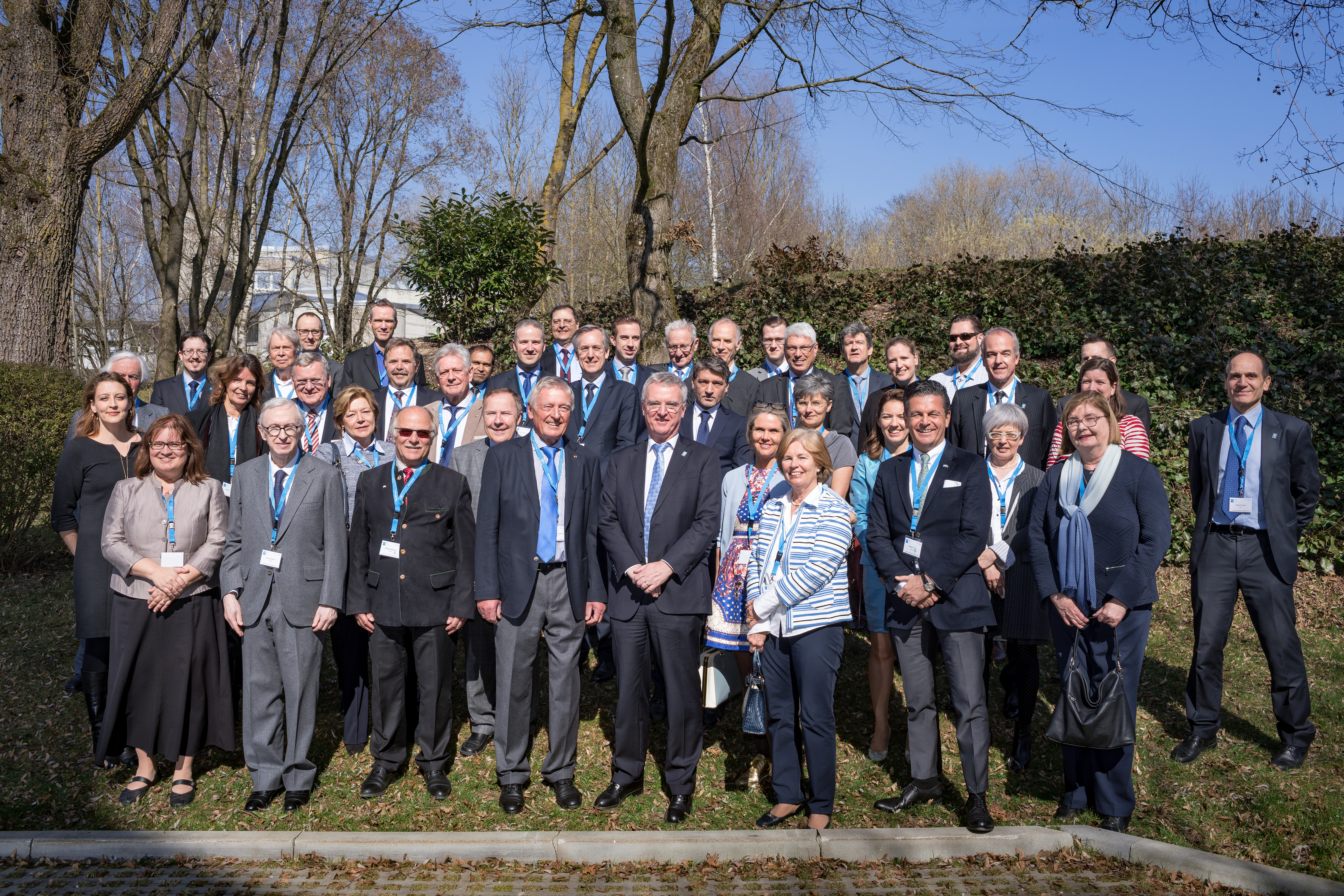 Members of the Consular Corps in Bavaria visited ESO Headquarters on 16 March 2017. The visitors are seen here accompanied by ESO Director General Tim de Zeeuw, Director for Administration Patrick Geeraert, Director of Engineering Michèle Péron, ELT Programme Manager Roberto Tamai, Head of Cabinet of the Director General Laura Comendador Frutos, Head of Education and Public Outreach Department Lars Lindberg Christensen, ESO Supernova Coordinator Tania Johnston, Head of Internal Communication Office Douglas Pierce-Price and ESO Supernova Project Coordinator Fabian Reckmann.